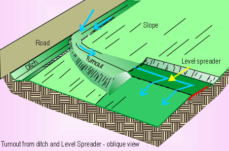 Illustration of a level spreader installation for diverting surface runoff from a roadway to reduce erosion and water pollution